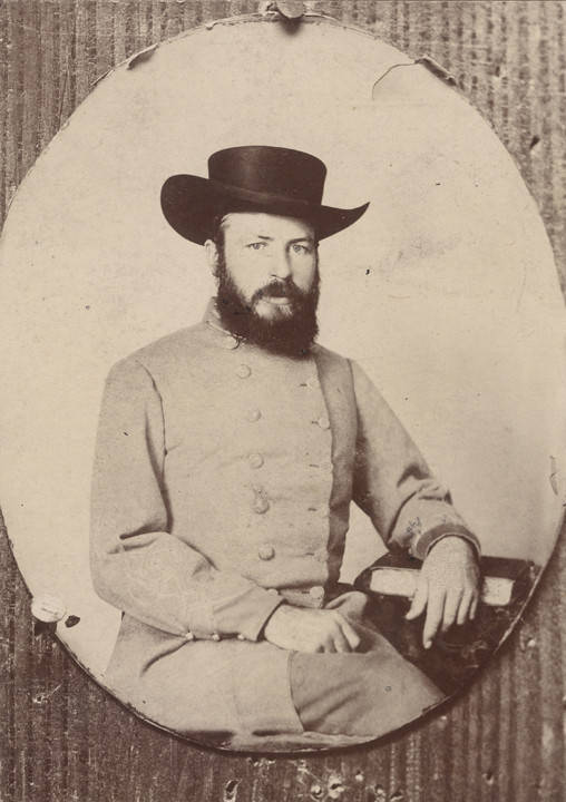 Colonel Samuel Adams, Regimental Commander of the 33rd Alabama Infantry, Alabama Department of Archives and History